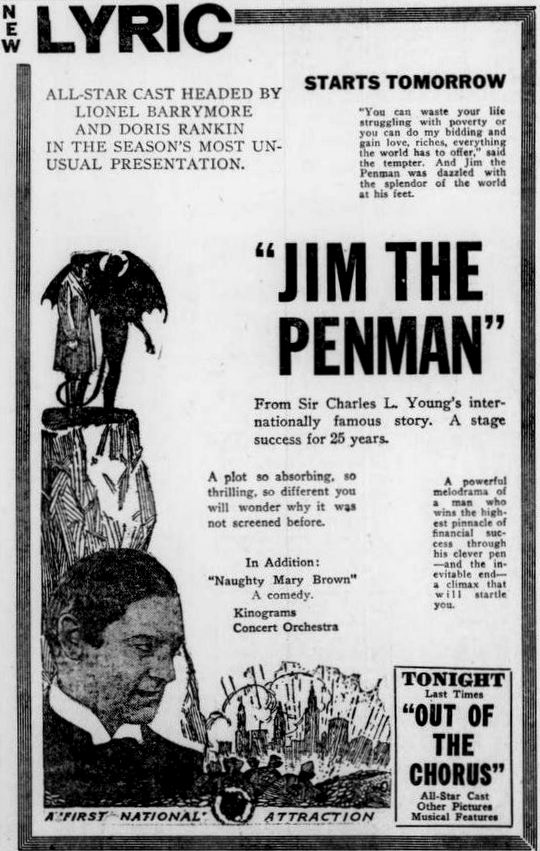 Newspaper advertisement for the American film Jim the Penman (1921) with Lionel Barrymore, on page 7 of the June 17, 1921 Duluth Herald.